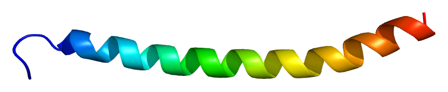 Structure of the ADCYAP1 protein. Based on PyMOL rendering of PDB 2d2p.